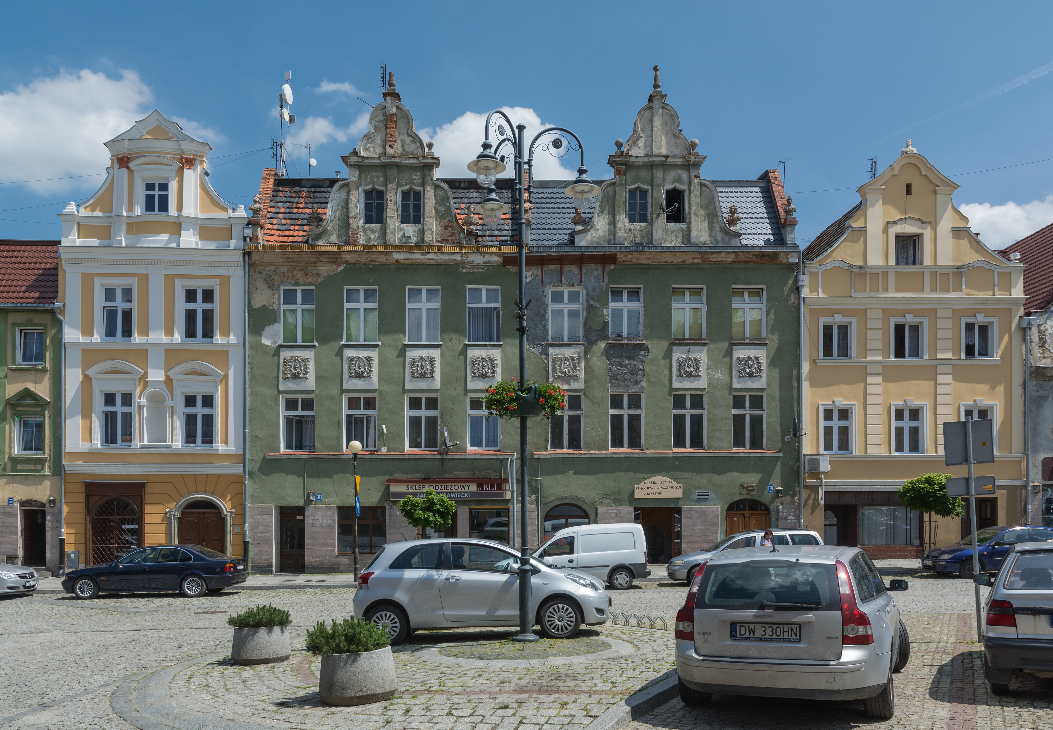 Market Square in Niemcza